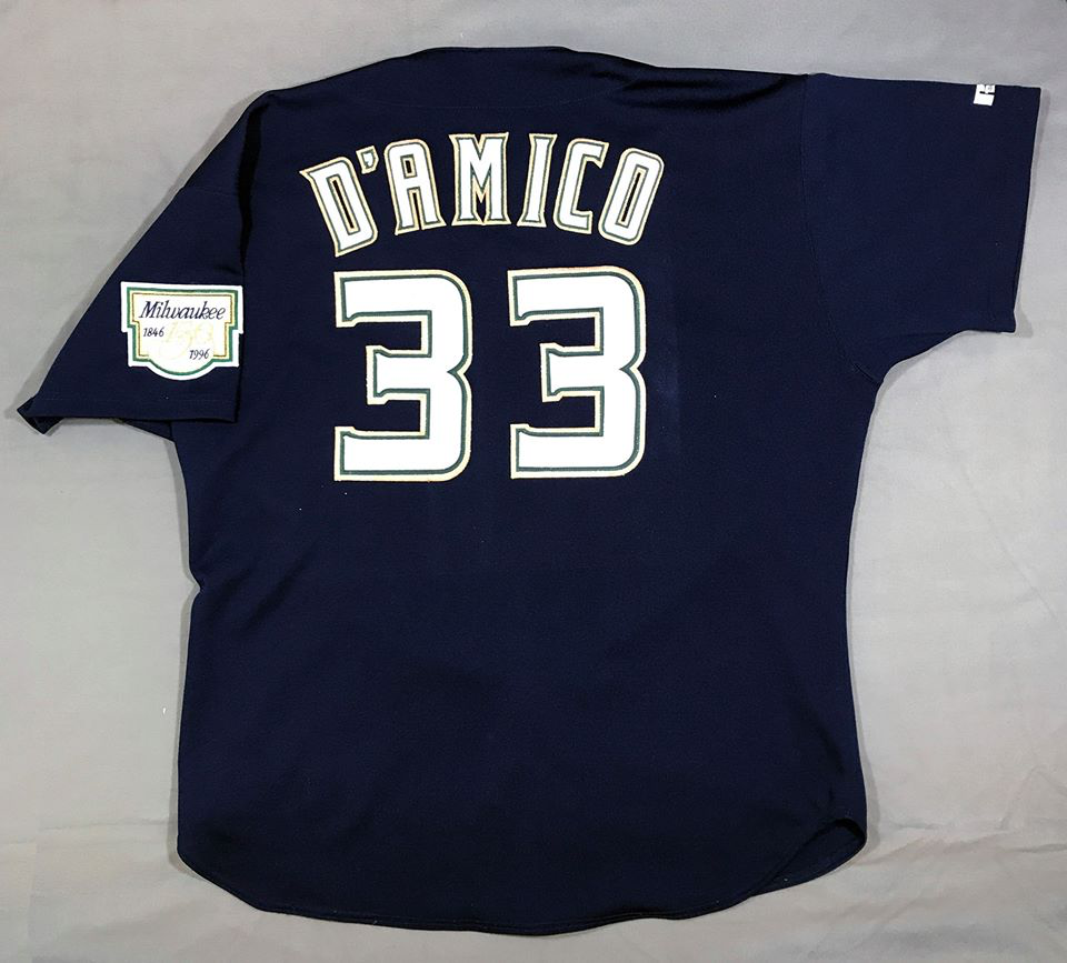 1996 Milwaukee Brewers #33 Jeff D'Amico Alternate Jersey. Lettered and photographed by William F. Henderson, author of The Game Worn Guide to MLB Jerseys. For more information contact me at my website